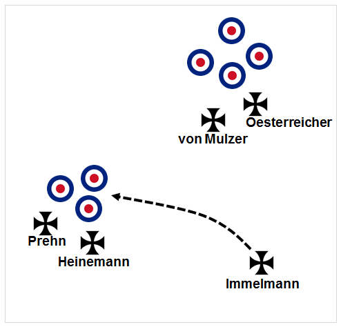 Immelmann last dogfight on 18 June 1916 Page 1